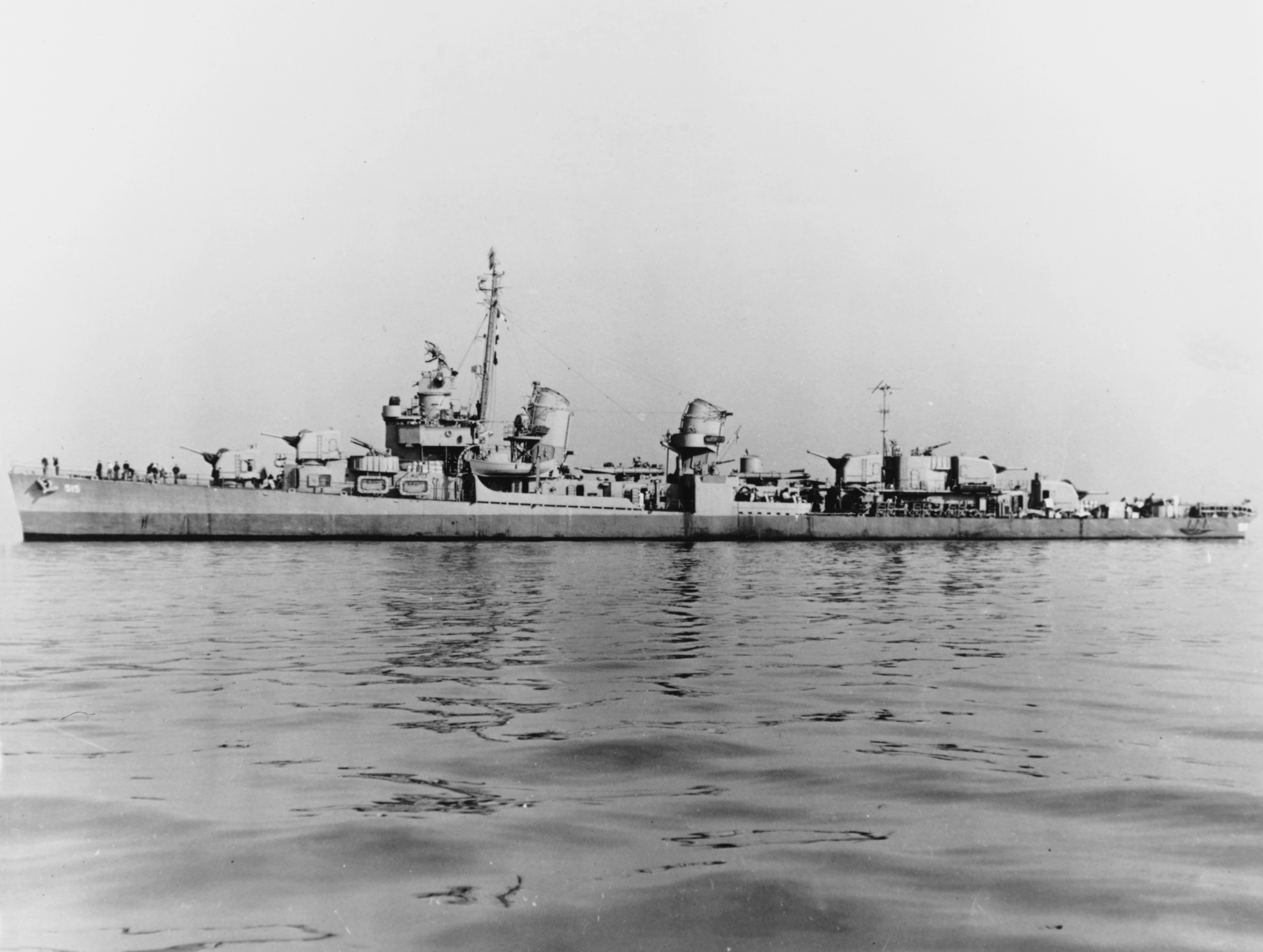 The U.S. Navy destroyer USS Anthony (DD-515) off the Mare Island Naval Shipyard, California (USA), on 8 December 1944.